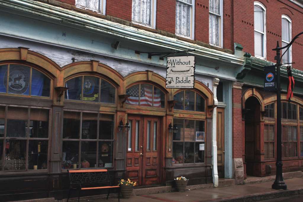 shops on Water Street, Eastport, Maine, USA